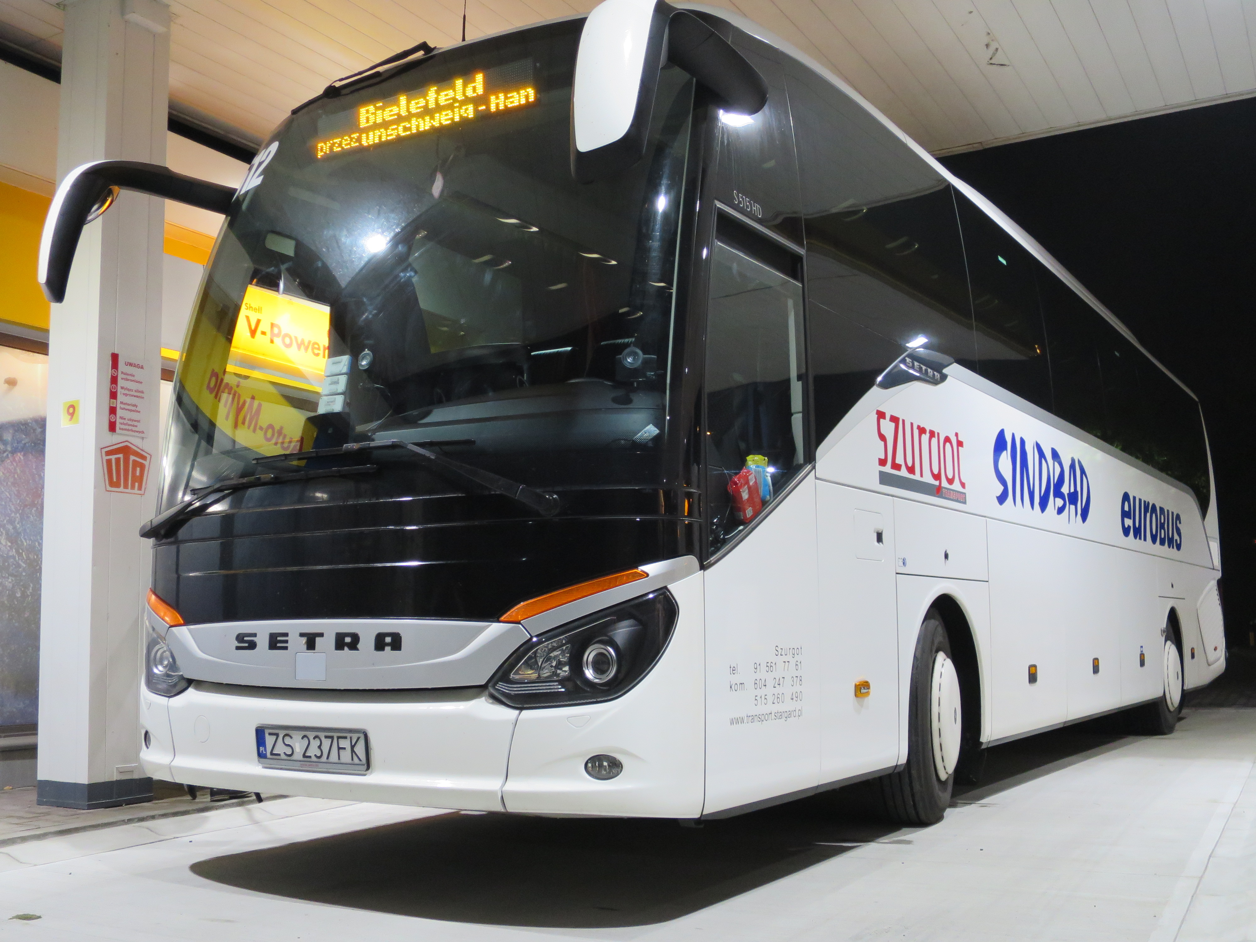 Setra S 515 HD The making of this document was supported by Wikimedia Polska Association, within Wikigrant no. WG 2016-35. English | polski | +/−